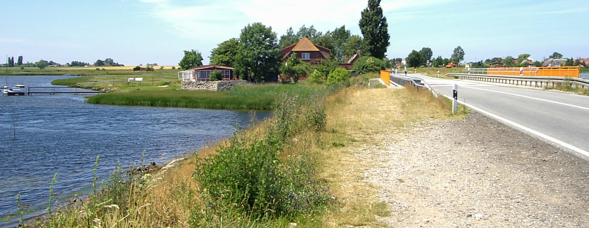 Bridge on Poel Causeway from the mainland to Poel Island, Mecklenburg-Vorpommern, Germany